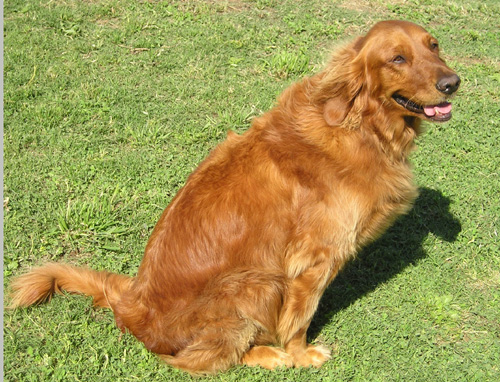 Dark Golden Retriever at Elk Grove, CA (Katie owned by Carlene Chandler).